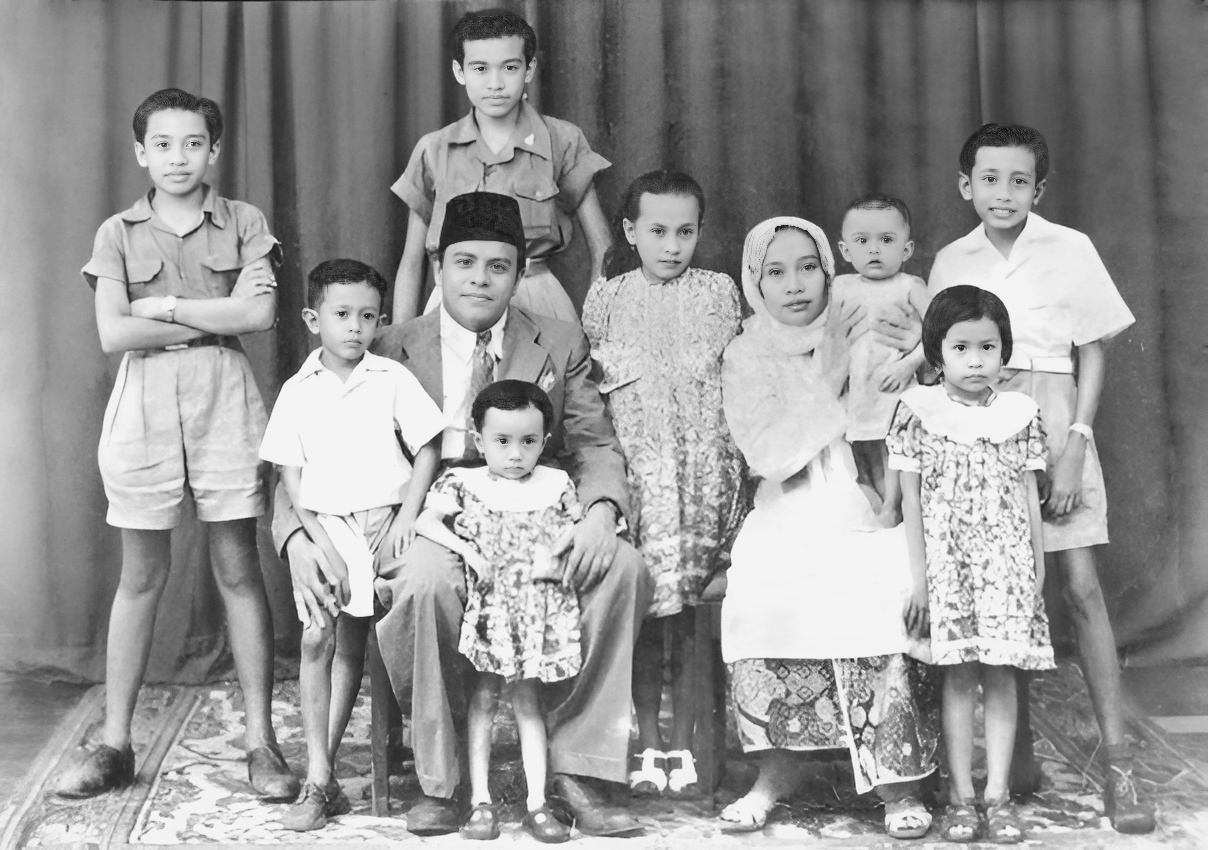 Buya Hamka dan keluarga pd